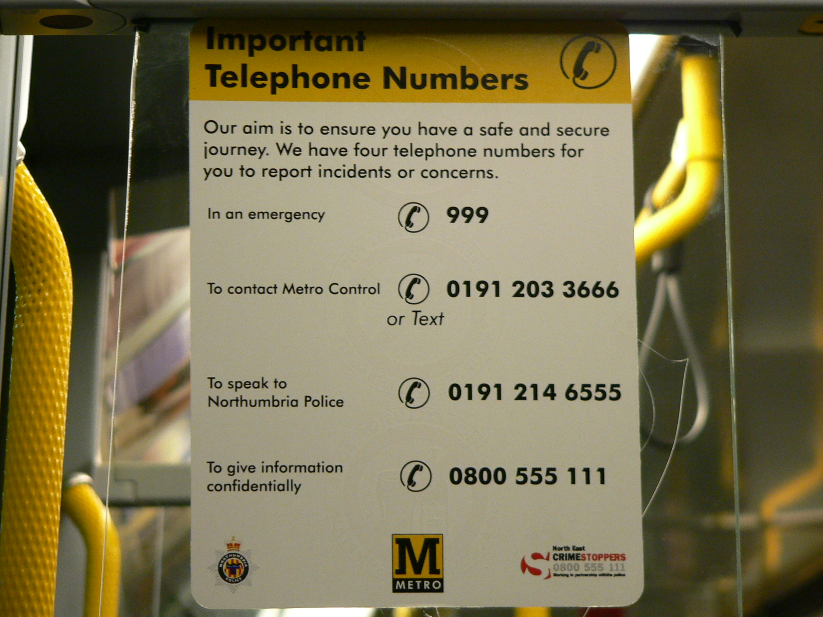 Important telephone numbers that Tyne and Wear Metro operators Nexus, Northumbria Police and CrimeStoppers would like regular travellers to program into their mobile phone address books.